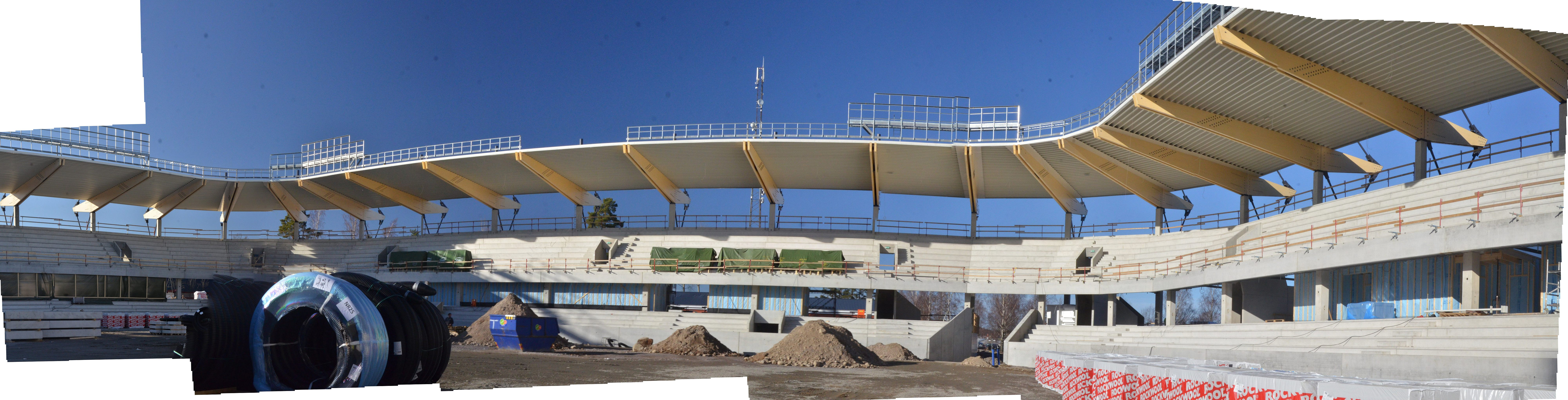 The north stand of Östers IF's new stadium Myresjöhus Arena, during UEFA site visit March 13 2012.